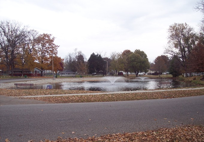 Taken by Kurt Weber (User:Kmweber) on November 5, 2006